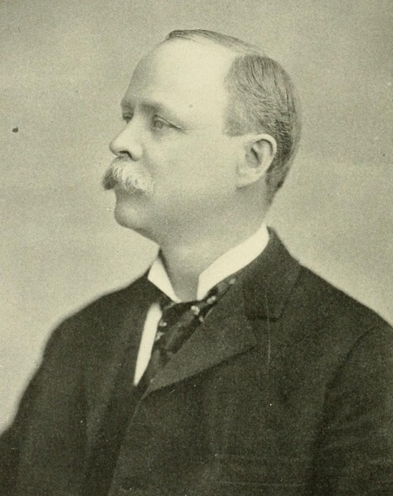 Horace G. Snover (Michigan Congressman)